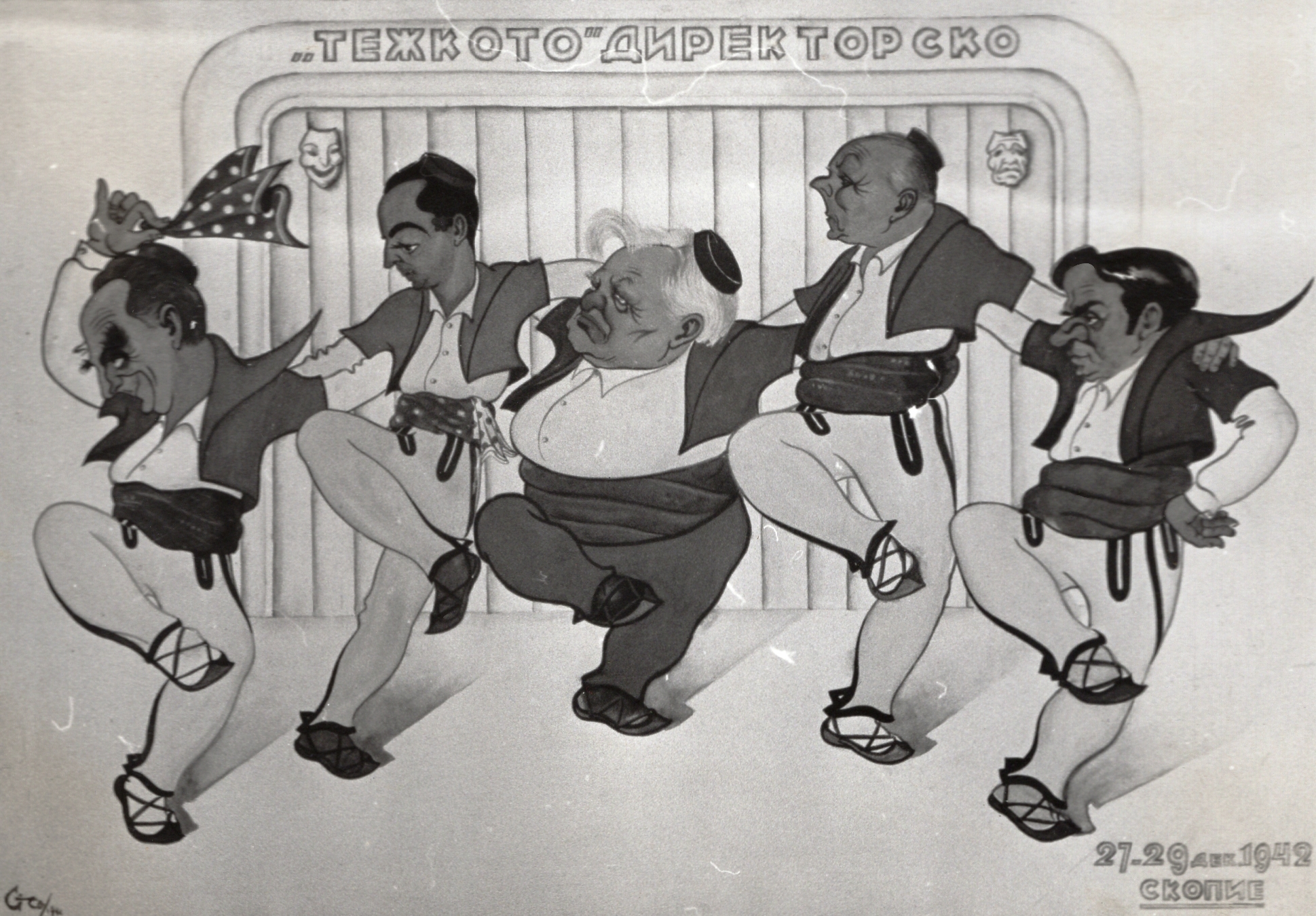 A caricature issued for the conference of director of state theatres held in Skopje, 27-29 December 1942.. This media file is produced by Wikipedian in Residence in Category:Wikipedian in Residence at DARM in 2017.